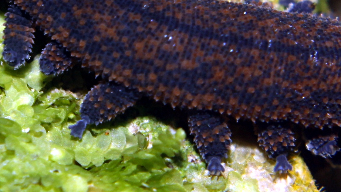 Leg and foot detail. These all tend to be called Peripatus in New Zealand, I think this one is in fact Peripatoides novaezealandiae. Found on a damp tree at night in regenerating forest. Karori, Wellington, New Zealand.